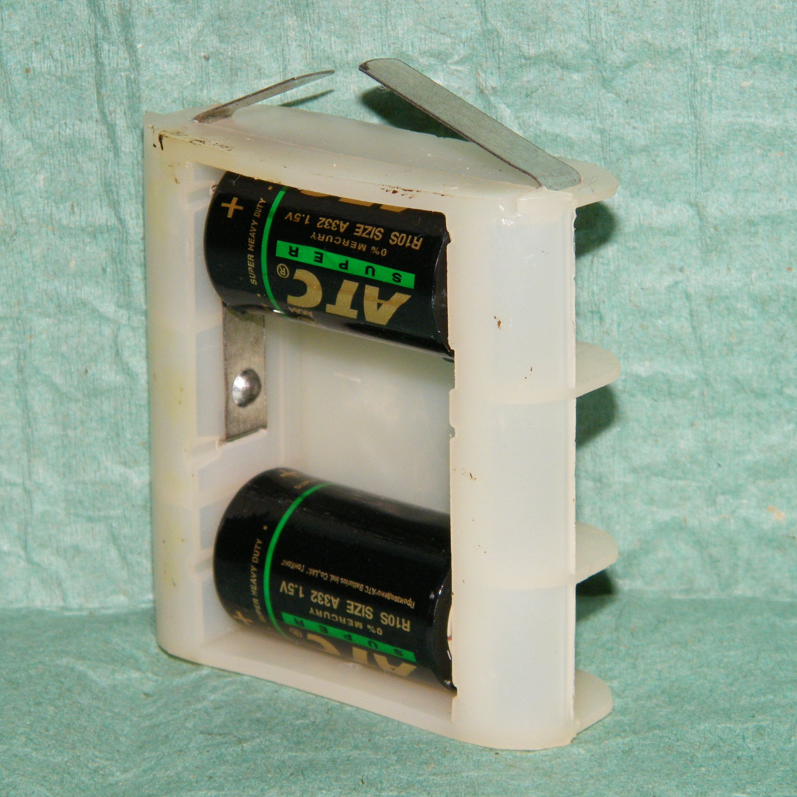 3R12-shaped container for three R10 cells.